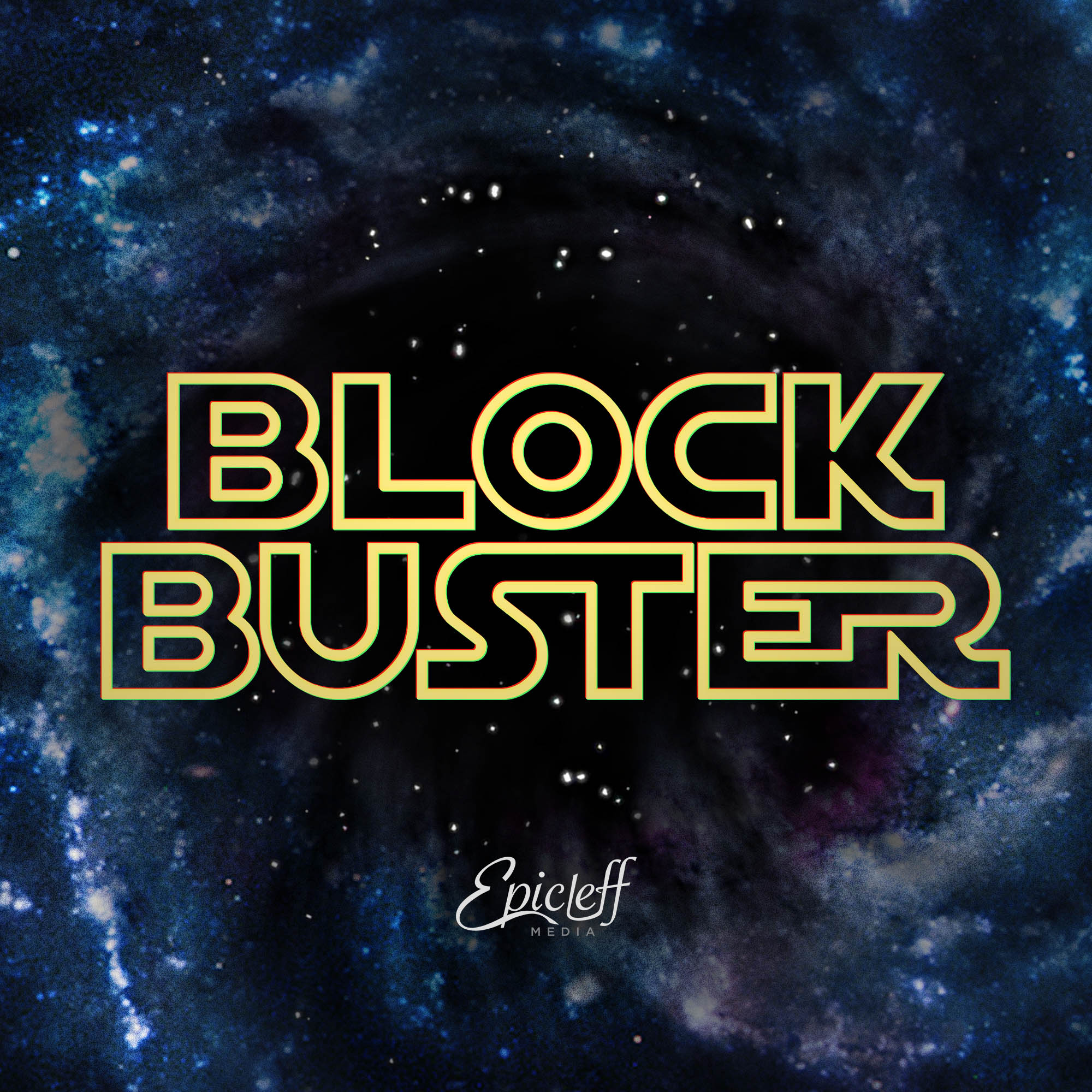 This is the image used for Blockbuster on all podcast platforms.